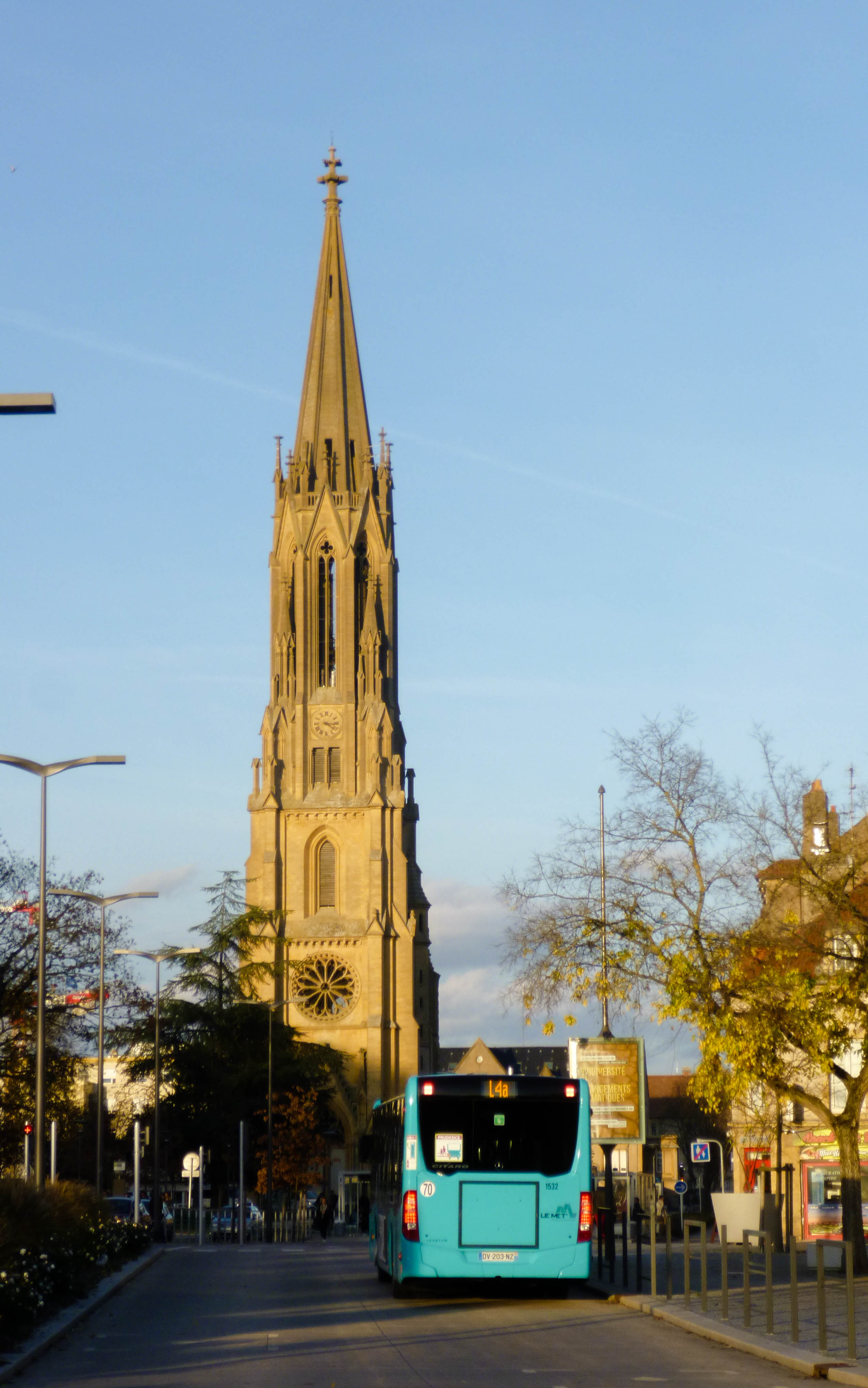 Bell tower of former lutheran church in Metz